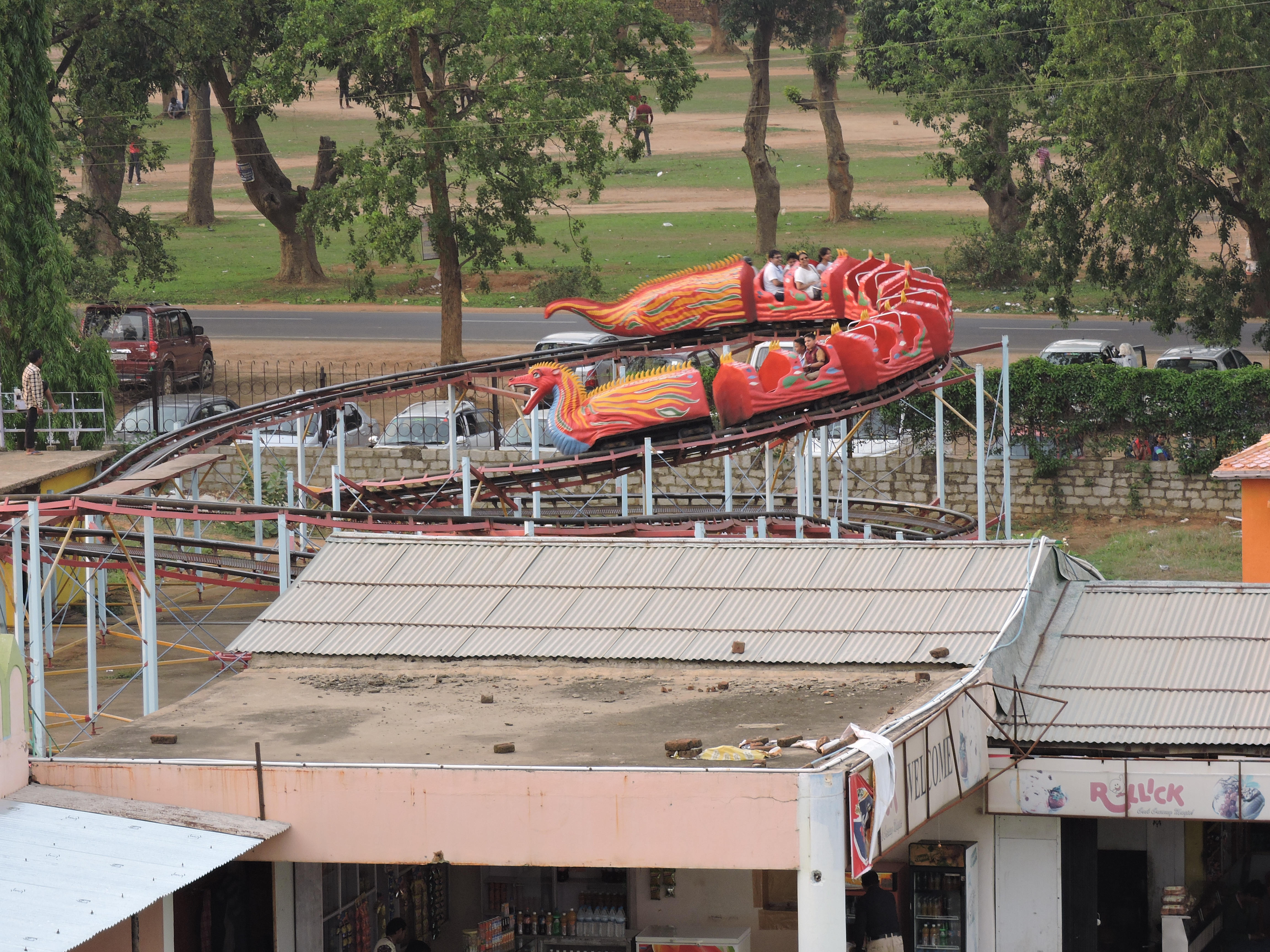 Roller coster at fun castle ranchi